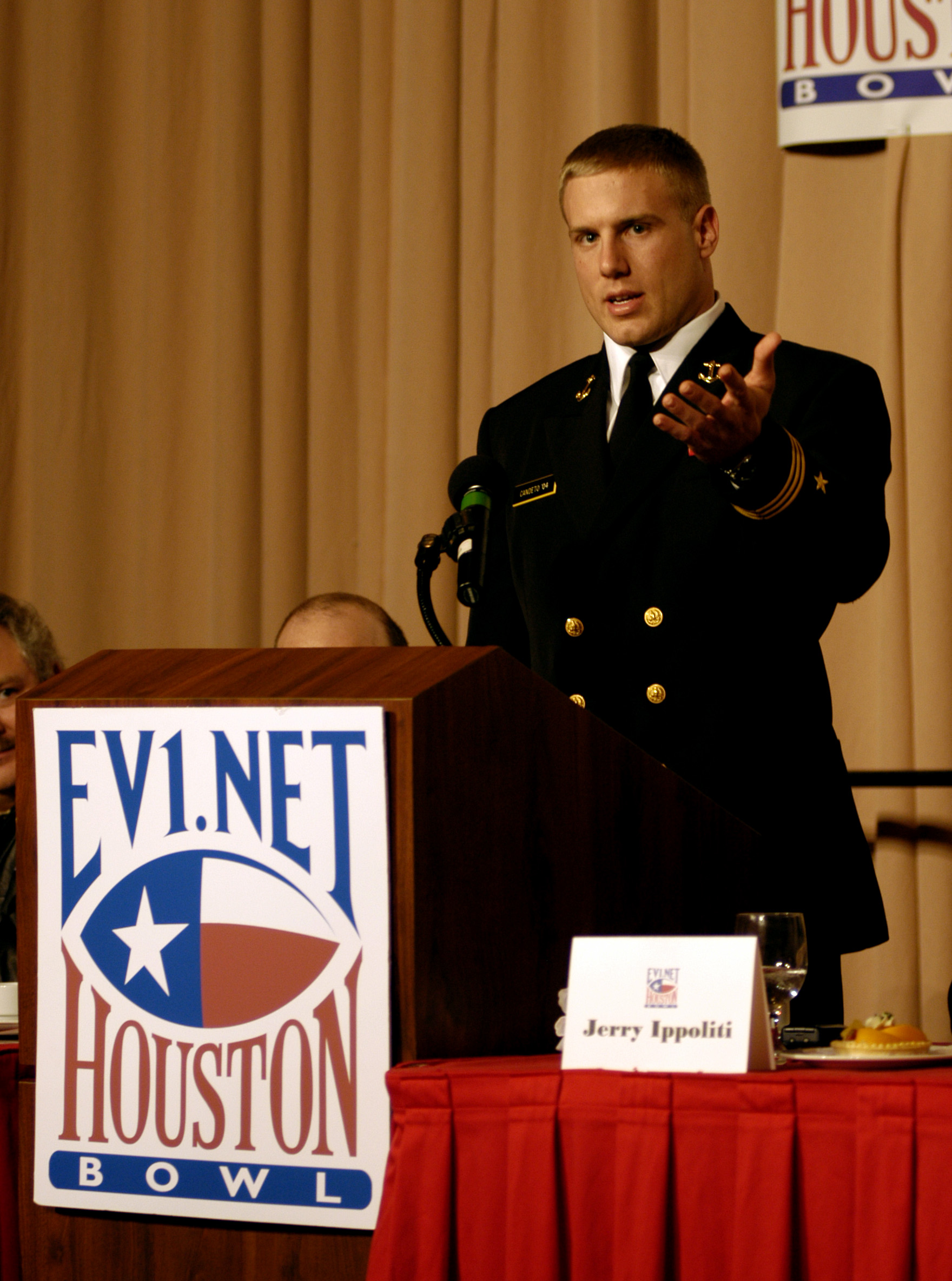 Houston, Texas (Dec. 29, 2003) – U.S. Naval Academy (U.S.N.A.) Quarterback and Co-Captain Midshipman 1st Class Craig Candeto, Orange City, Fla., addresses an audience gathered for the J.W. Marriott Kick-Off Luncheon in advance of the Houston Bowl in Houston, Texas. Candeto was joined by Naval Academy Superintendent Vice Adm. Rodney P. Rempt, Athletic Director Chet Gladchuk, Head Coach Paul Johnson and Professional Football Hall of Fame member and U.S.N.A. alumni Roger Staubach. Navy, 8-4, will play Texas Tech, 7-5, on Dec. 30. This marks the 10th bowl appearance for Navy with their last bowl match-up in 1996. U.S. Navy photo by Photographer’s Mate 1st Class Dana M. Howe. (RELEASED)